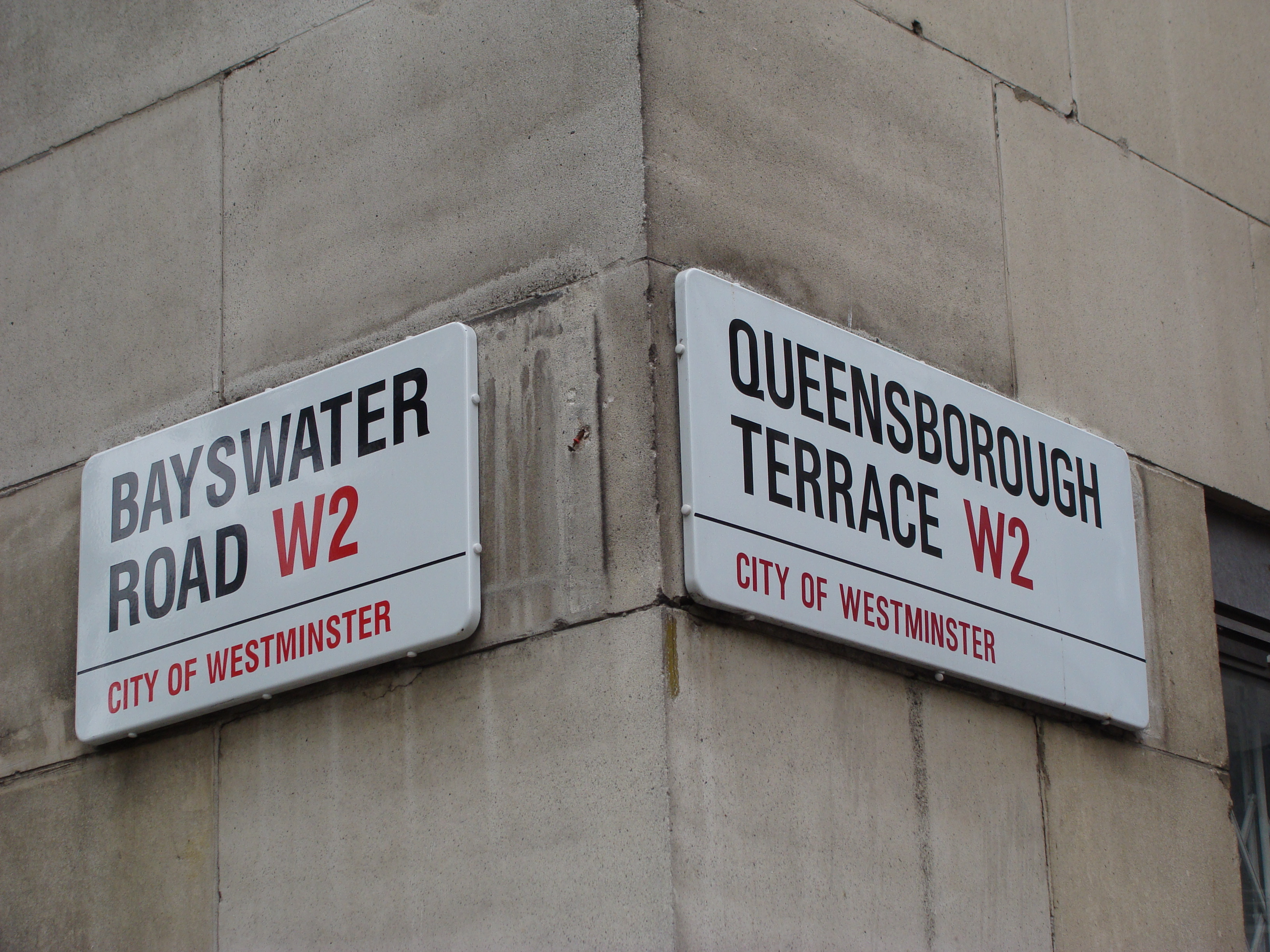 Bayswater Road in City of Westminster (London)